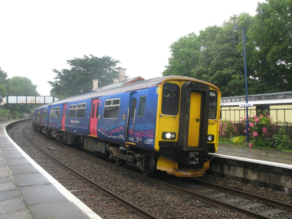 First Great Western DMU 150234 calls at St Germans station in Cornwall, United Kingdom, with a service from Penzance to Plymouth.